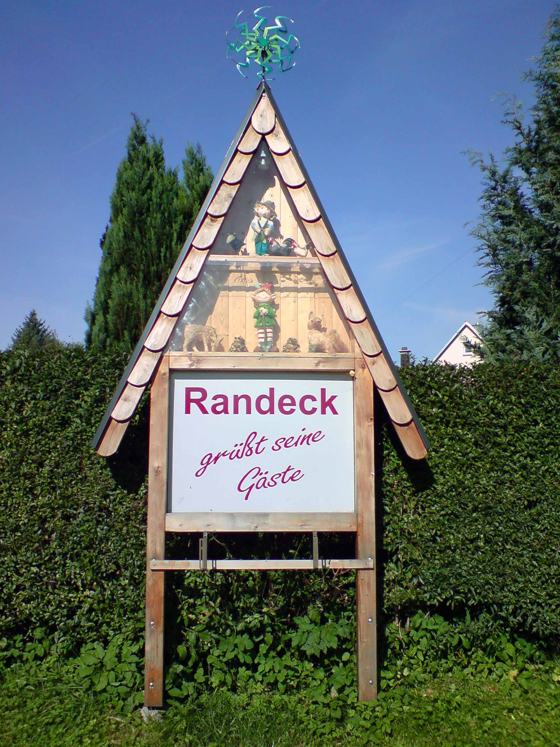 Infosign in Randeck